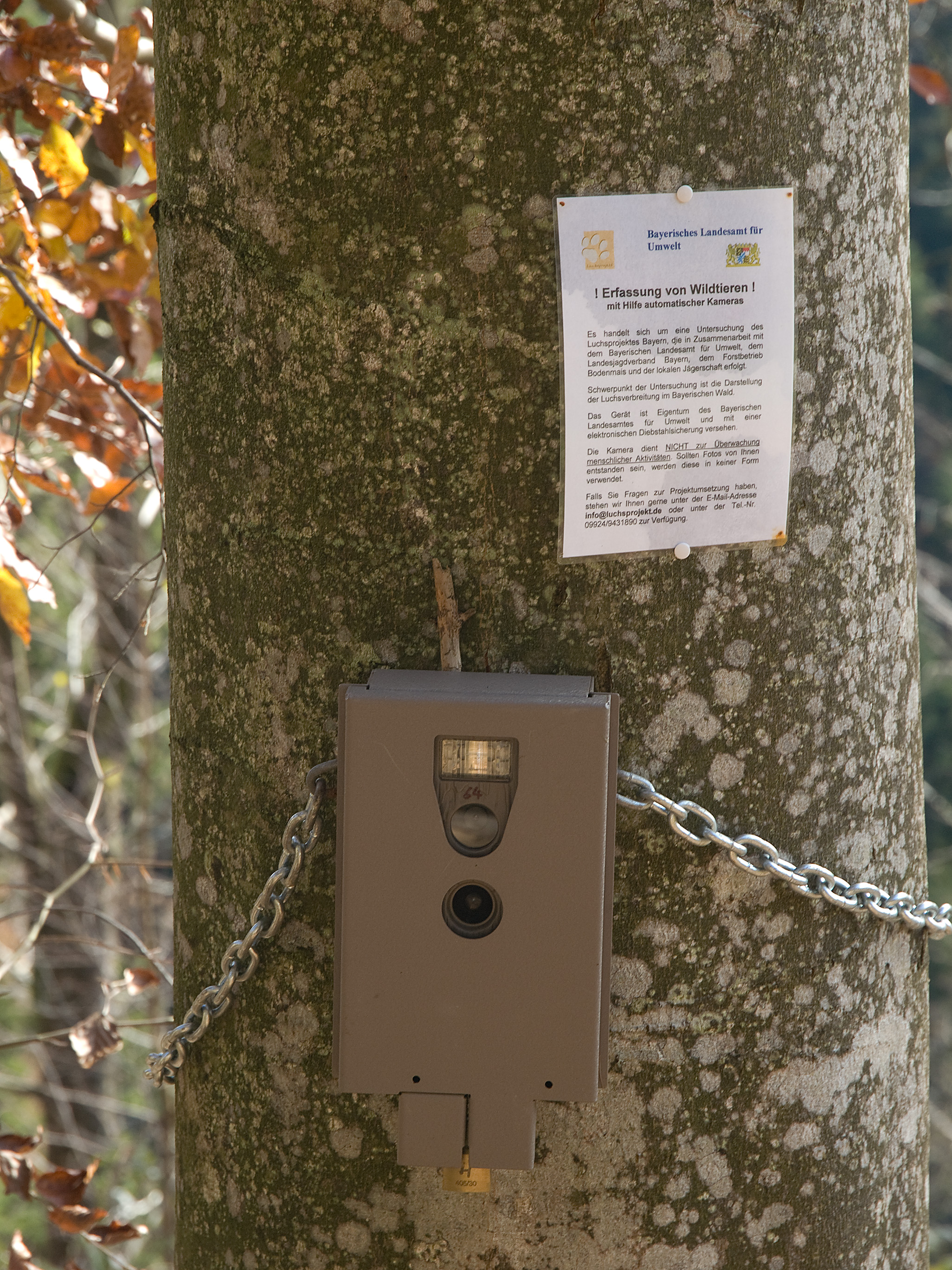 Camera für controlling of Lynx lynx in Bavaria ; Picture taken near the river Regen, near Viechtach, Bavaria